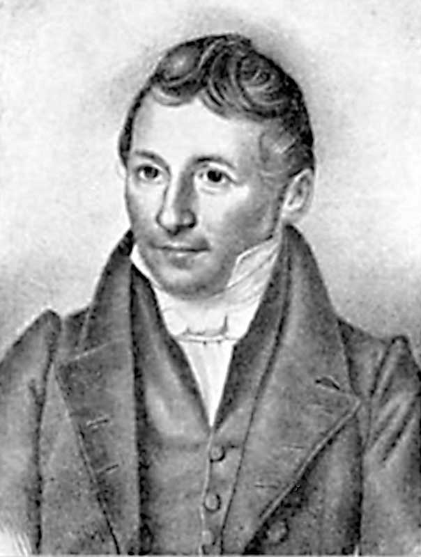 Moritz Wilhelm Mueller (1784-1849) German physician and pioneer of homeopathy